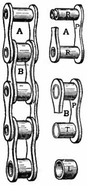 Top view of a segment from a standard bicycle chain.